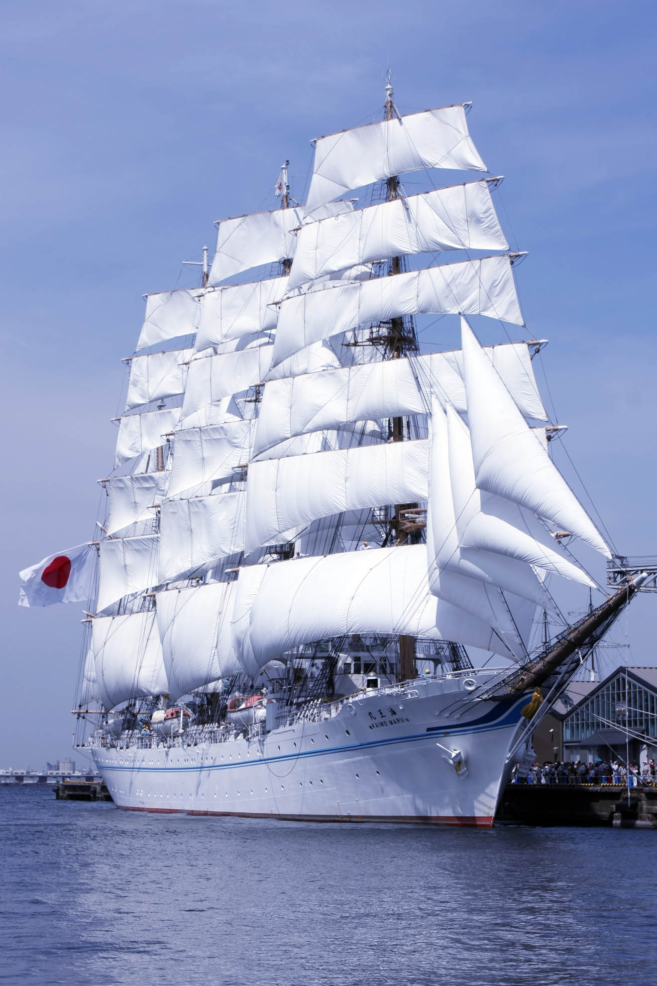 Japanese training tall ship Kaiwo Maru II off the Port of Yokohama.